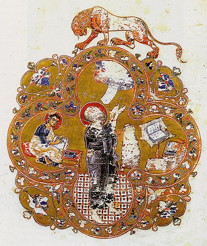 Miniature of St. John, from Ostromir Gospel Book